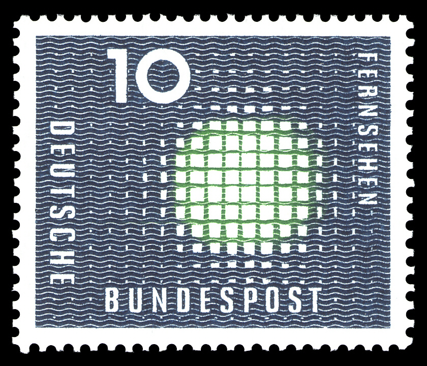 Special stamp, television